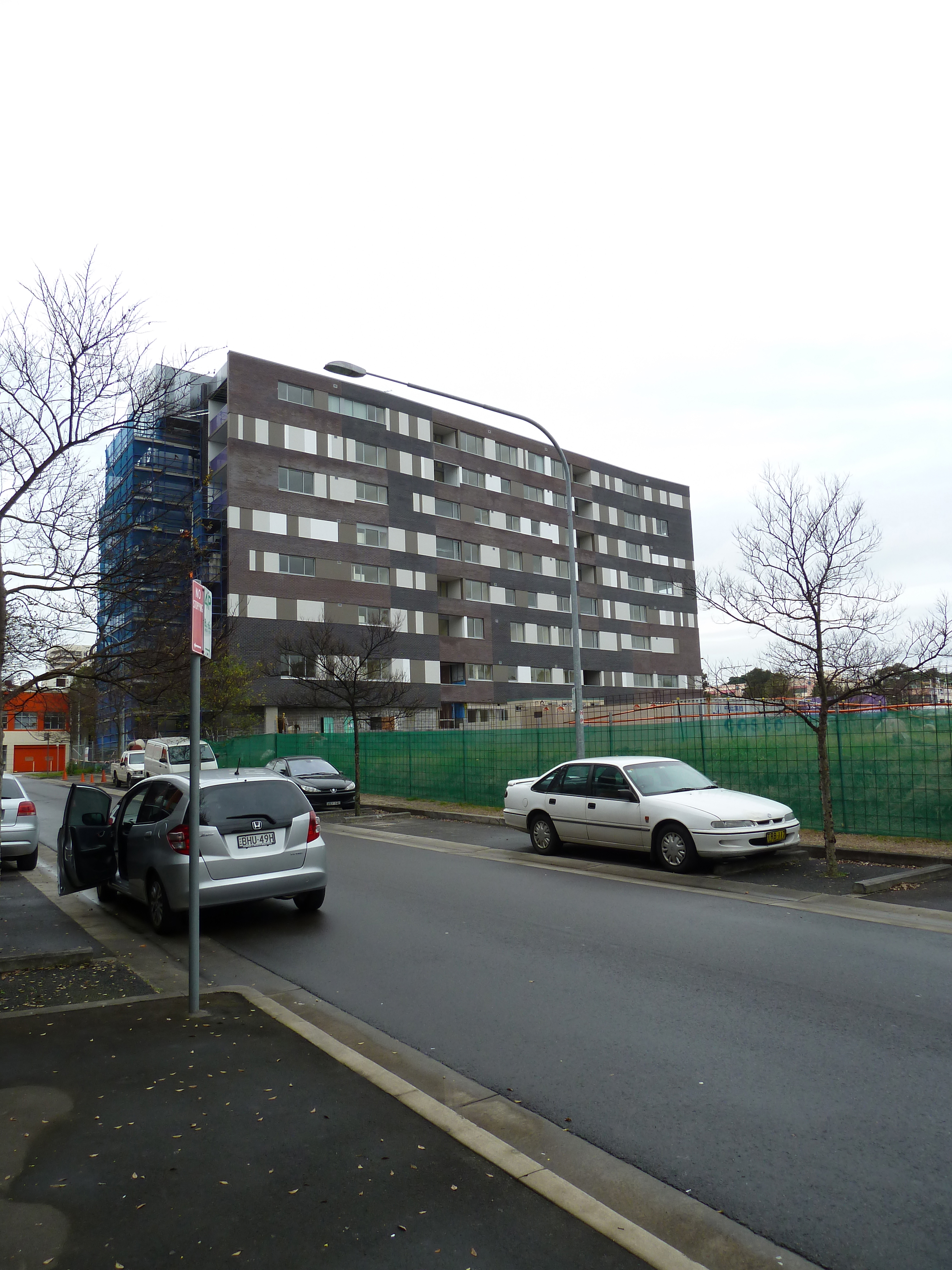 Apartments, Morris Grove and Grandstand Parade, Zetland, New South Wales, Australia.